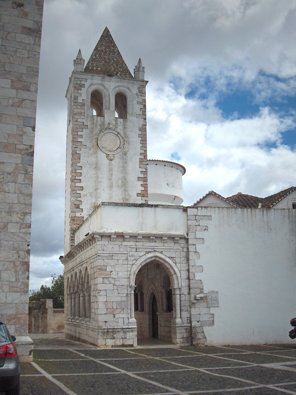 Chapel of Saint Isabel; Tower of the Three Crowns (Torre das Três Coroas), Estremoz, Portugal